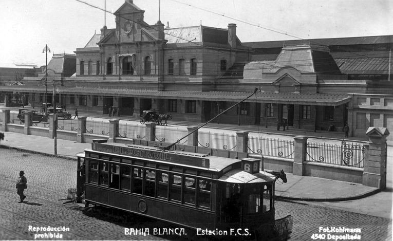 Post card of Bahía Blanca Sud train station. On the front, a tram running on the streets.